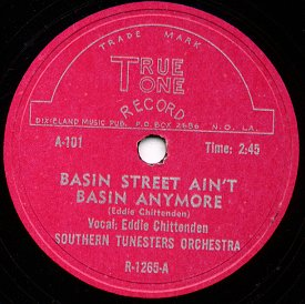 True Tone 78 label, with the company logo clearly visible